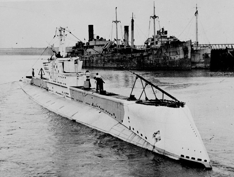 The British WW1 Submarine